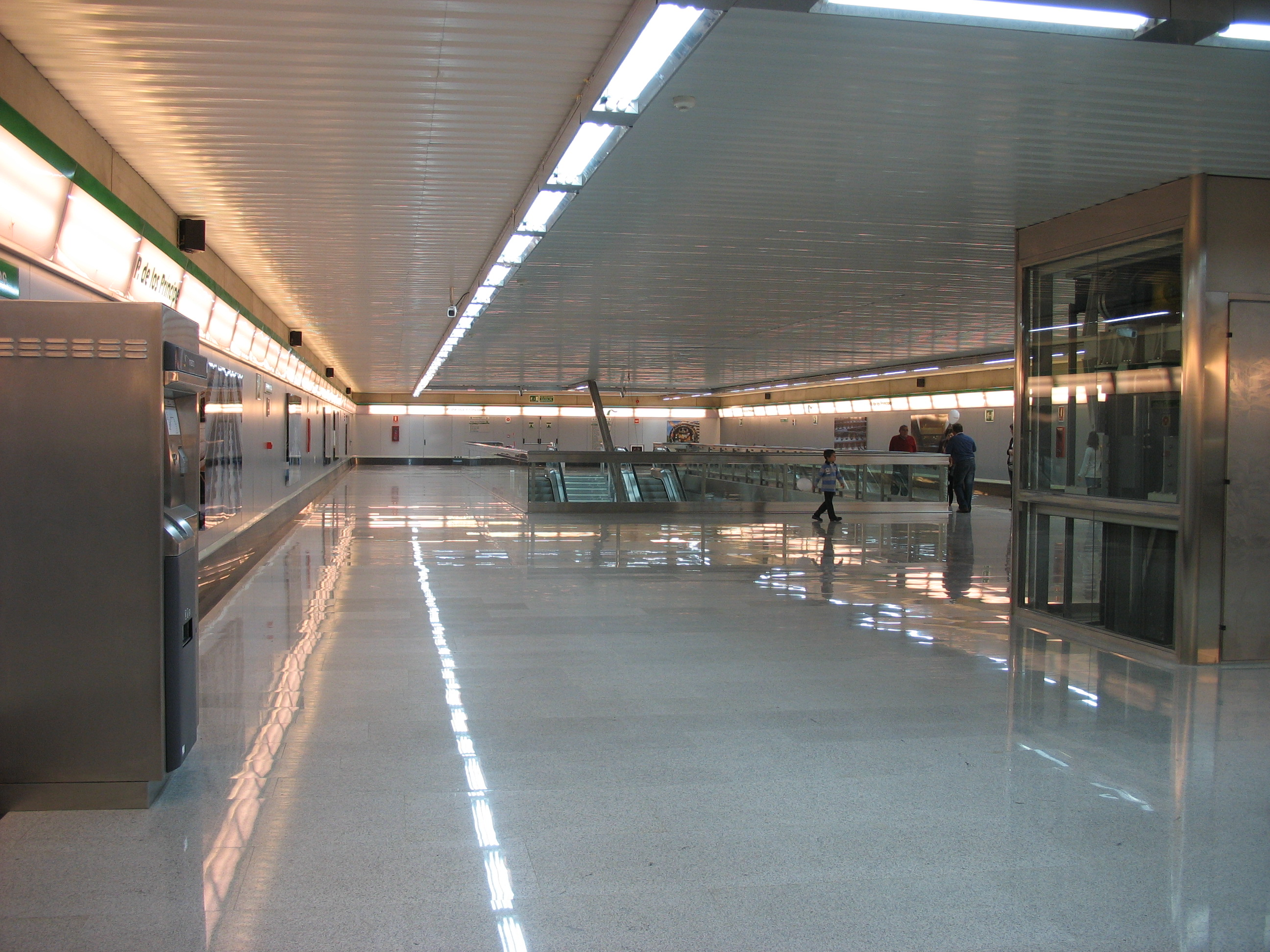 M Sevilla Station